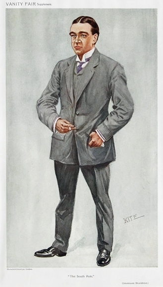 Caricature of Ernest Shackleton. Caption read "The South Pole".